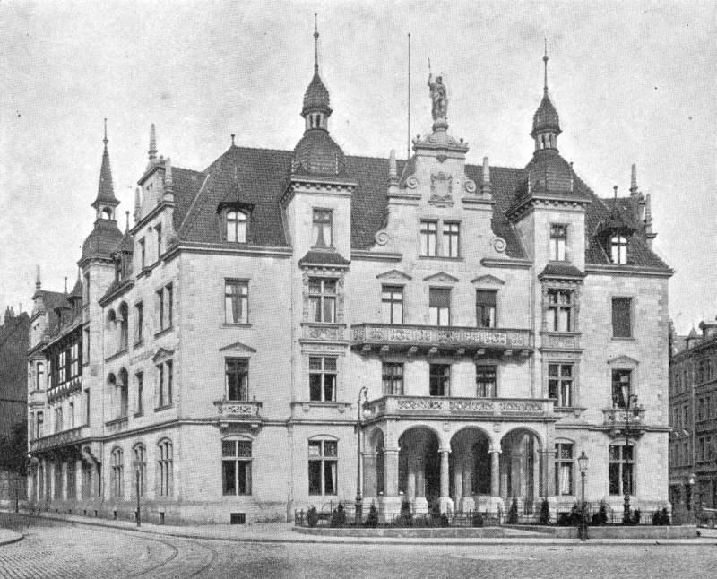 hotel “Deutsches Haus” on Ruhfäutchenplatz at Braunschweig, Germany